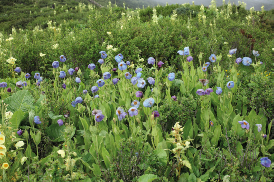 Meconopsis gakyidiana (blue) and Meconopsis paniculata (yellow) in Bhutan